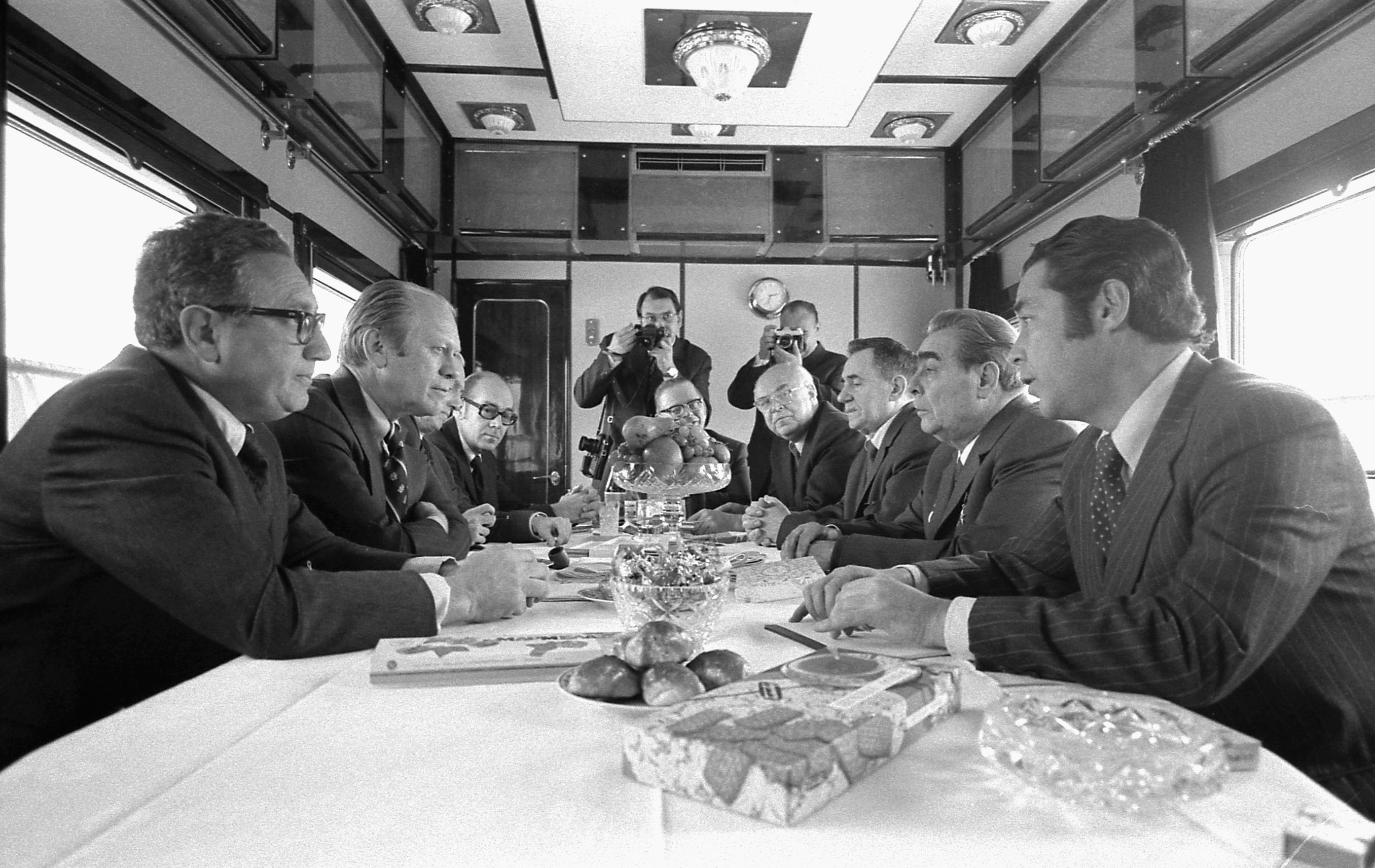 Photograph of President Gerald Ford, Secretary of State Henry Kissinger and other U.S. Representatives meeting with General Secretary Brezhnev, Foreign Secretary Gromyko, Ambassador Dobrynin, and the others aboard a Russian train headed for Vladivostok.